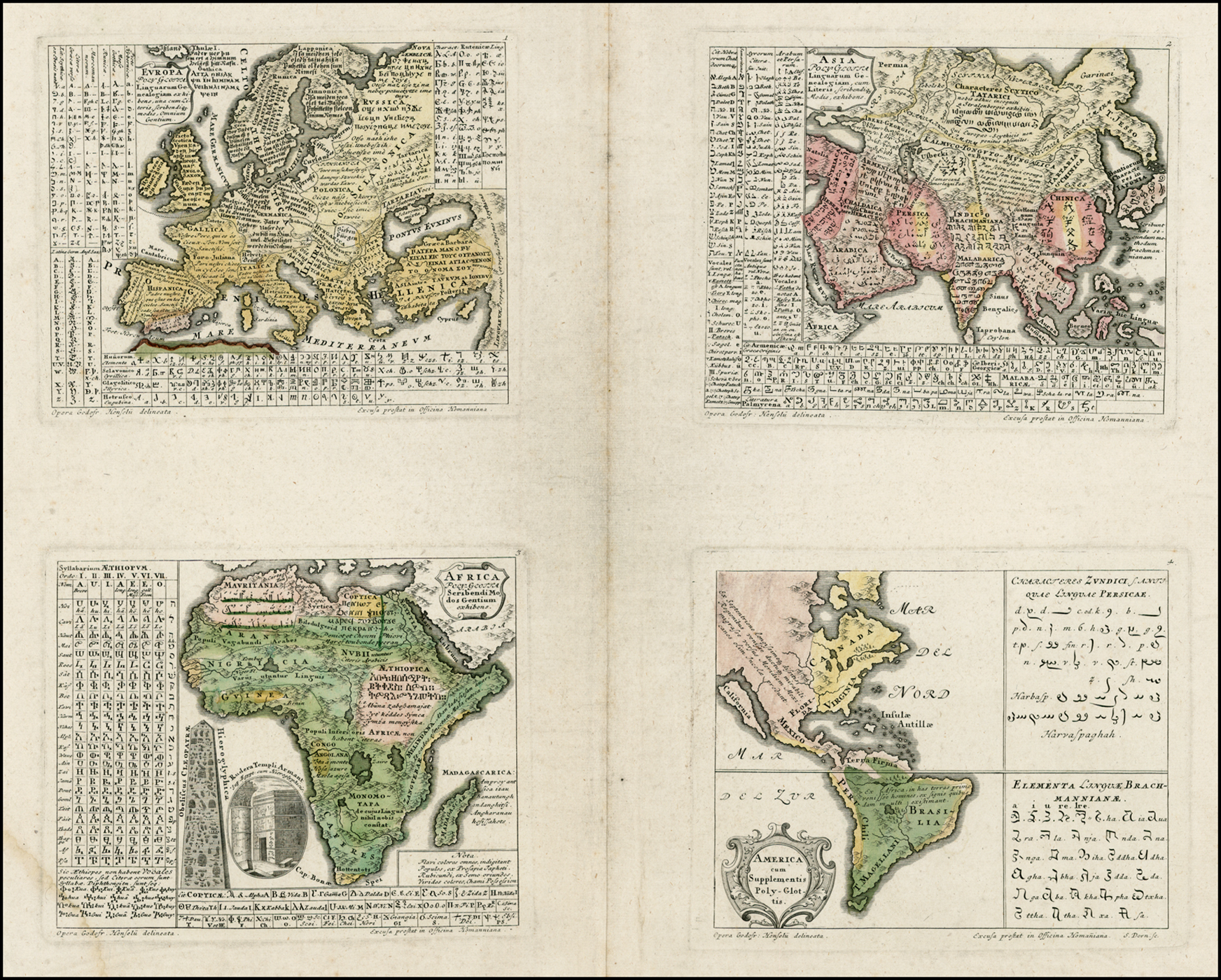 Sheet with four maps from Synopsis Universae Philologiae (1741). The maps are labelled Europa Poly Glotta, Linguarum Geneologiam exhibens, una cum Literis, scribendique modis, Omnium Gentium. charts of "Scythian" (Hebrew?), Greek, "Marcomannic", Runic, Hibernian (insular), German (blackletter), Anglo-Saxon, "Ruthenian" (Cyrillic), Hunnic, "Sclavonic" (Cyrillic), Glagolitic and Etruscan scripts. The map shows the first phrase of the paternoster in 34 languages (see File:Europa Polyglotta.jpg for details) Asia Poly Glotta, Linguarum Geneologiam, cum Literis, scribendique Modis, exhibens. charts of Hebrew, Syriac, Perso-Arabic, Armenian and Palmyrene scripts. Also shown in map: "Chaldean", Georgian, Uzbek (Chinese), "Brachmanic", "Malbaric", "Malayic" (Arabic), Chinese, "Tataric" and "Japonic" scripts Africa Poly-Glotta Scribendi Modos Gentium exhibens. charts of Aethiopic (Ge'ez) and Coptic scripts. America cum Supplementis Poly-Glottis.: with charts of "Brachmanic" (Devanagari) and "Zundic" (Avestan) scripts to go with the map of Asia Each map is marked opera Godofr. Henselii delineata; in officina Homanniana. In addition, the fourth map has S[ebastian]. Dorn sc[ulpsit]. caption at : Rare set of 4 maps of the continents, identifying the distribution of languages of the world. Each map includes tables identifying the characters of the Brach-Manniae, Aethiopum, Zundici, Coptica, Hybernian, Gothic, Runic, Marcoman, Greek, Schythic, Latin, Hungarian, Sclavonian, Glagolitic, Hetroscan and Russian languages (with apologies for our misspellings and an invitation to offer corrections). From Synopsis Universae Philologiae. Only the second time we have had this set of maps in 20 years.